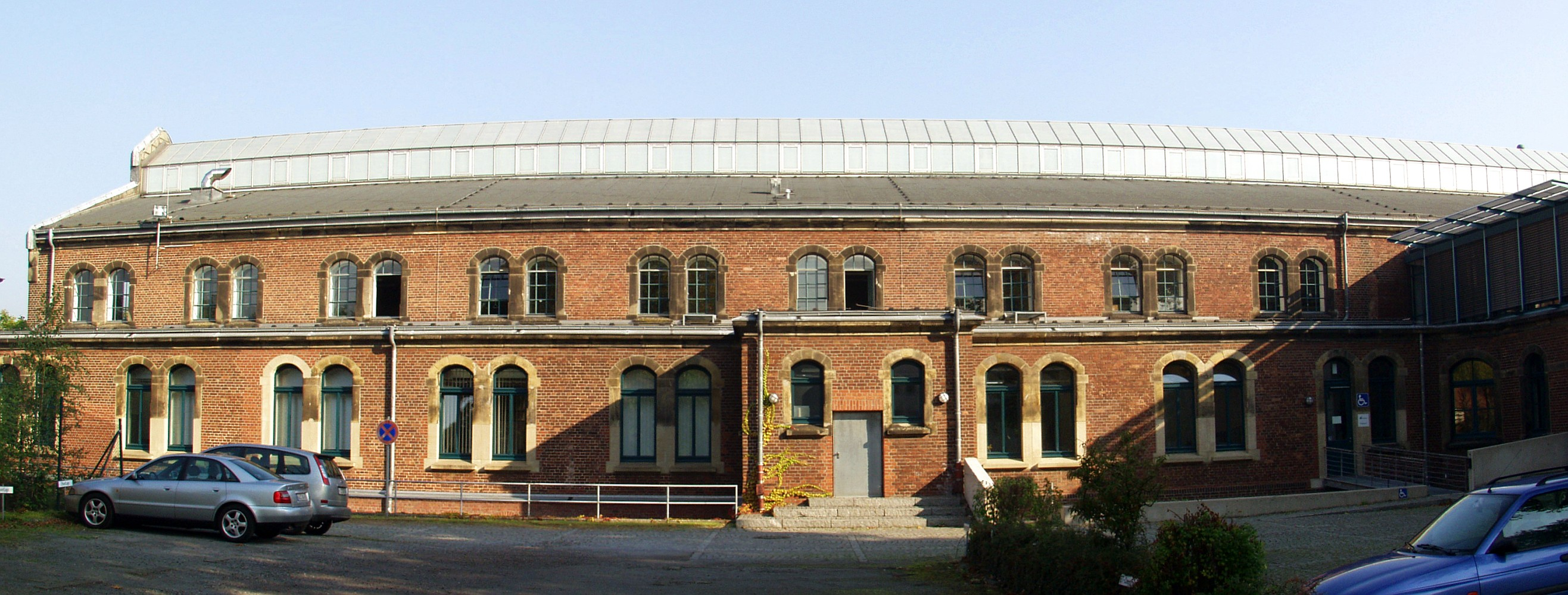 Pithead bath of coal mine "Rheinpreußen", mine shaft no. 5/9 in Moers, Germany